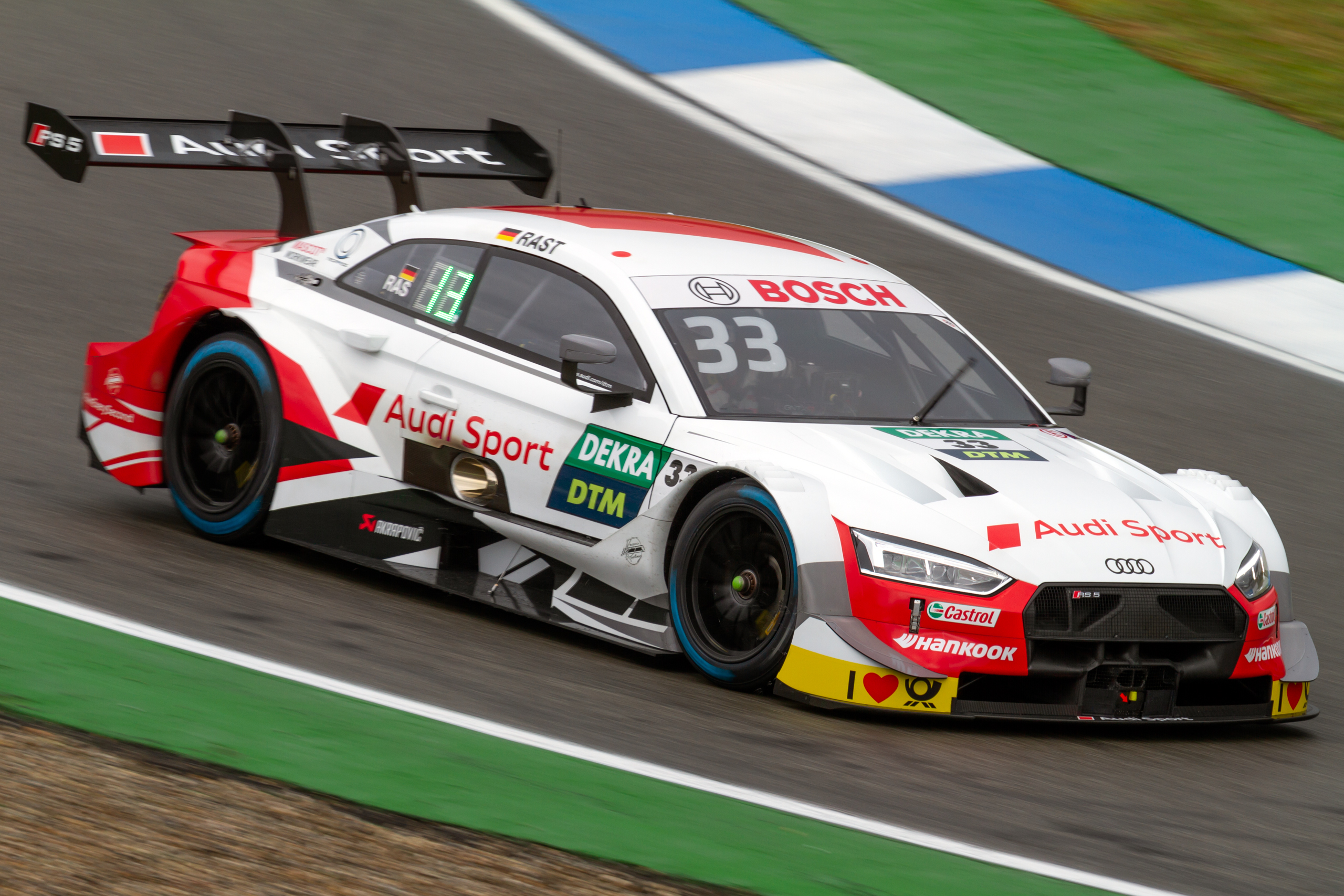 2019 DTM Hockenheimring (May): Audi RS5 Turbo DTM of René Rast